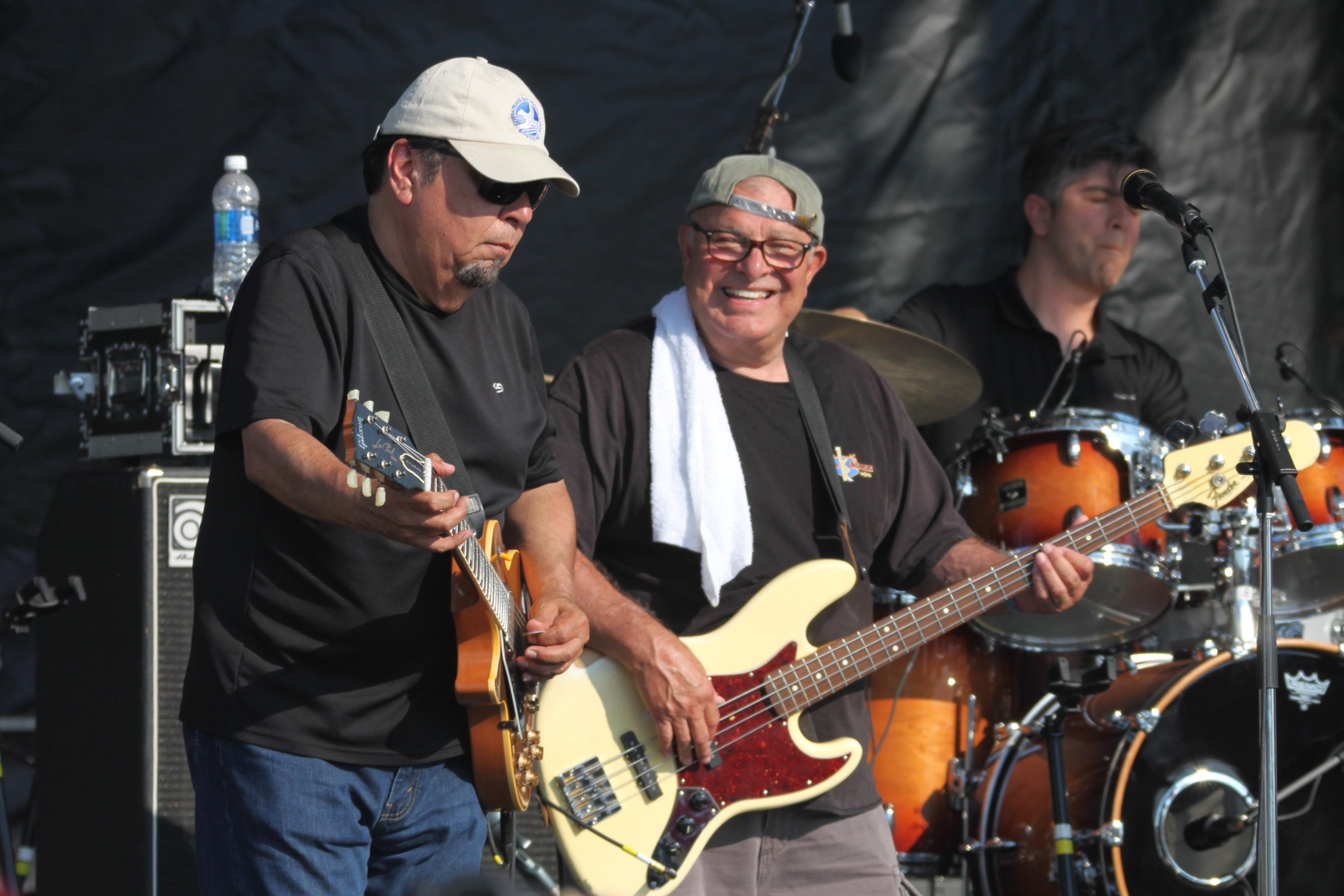 Playing in Norfolk, VA